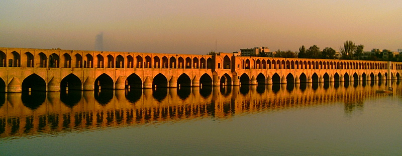 The Si-o-se Pol is a bridge over the Zayandeh Rud (river) in Isfahan - Iran.